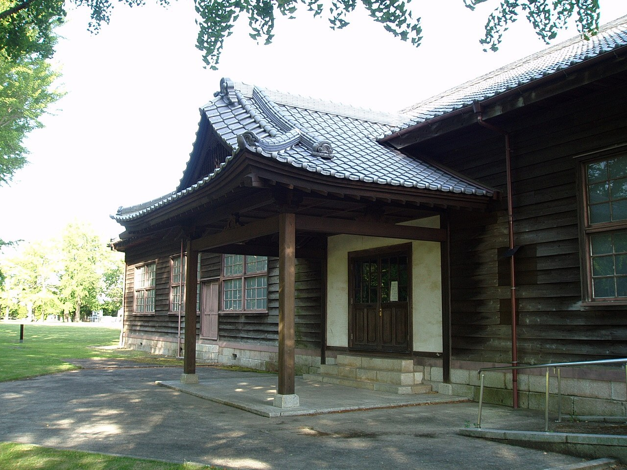 Former main building of Ibaraki Prefectural Mito Agricultural High School, originally built in 1899, now preserved in the front garden of Ibaraki Prefectural Museum of History in Mito.